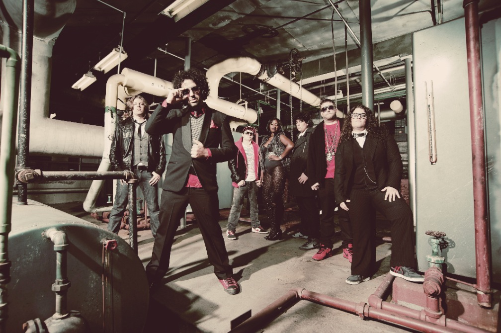 mirk press promo photoshoot